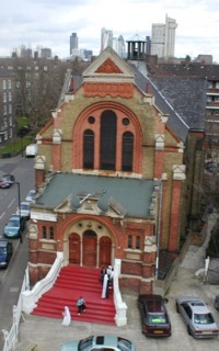 My own photo of the Brotherhood of the Cross and Star, Falmouth Road Sah10406, the copyright holder of this work, hereby publishes it under the following license: Attribution: Sah10406